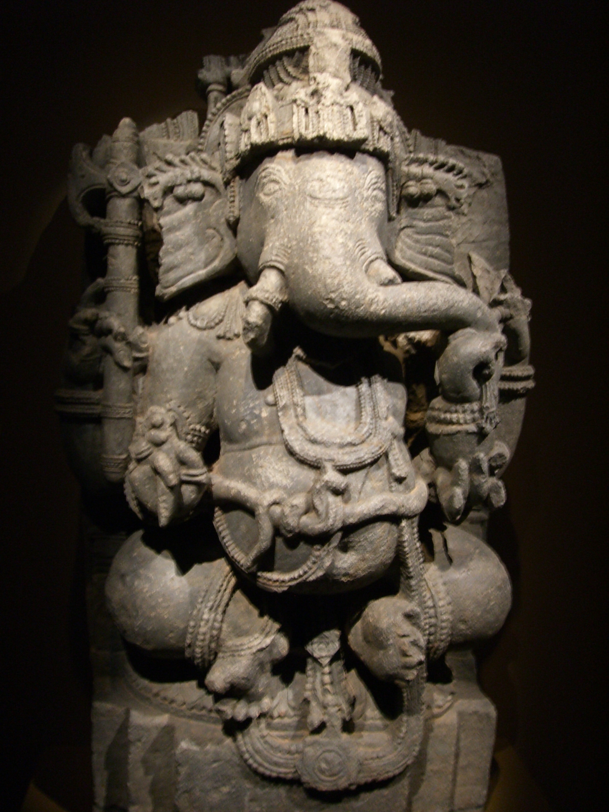 A statue of Ganesha in the Asian Civilisations Museum, Singapore.